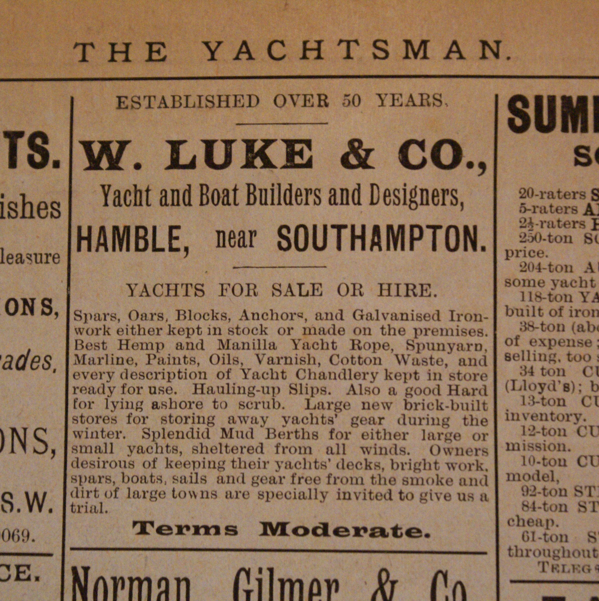 advertisement of Luke & co Boatbuilders from The Yachtsman magazine 1891